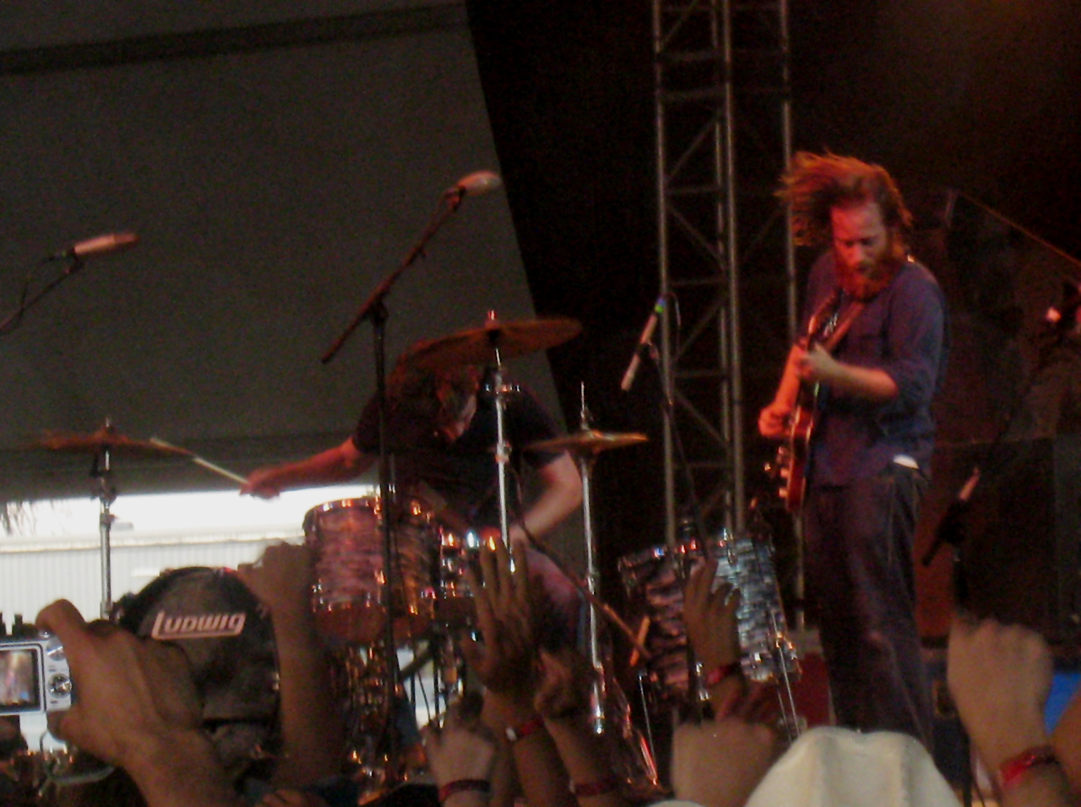 The Black Keys preforming at Bonnaroo 2007.